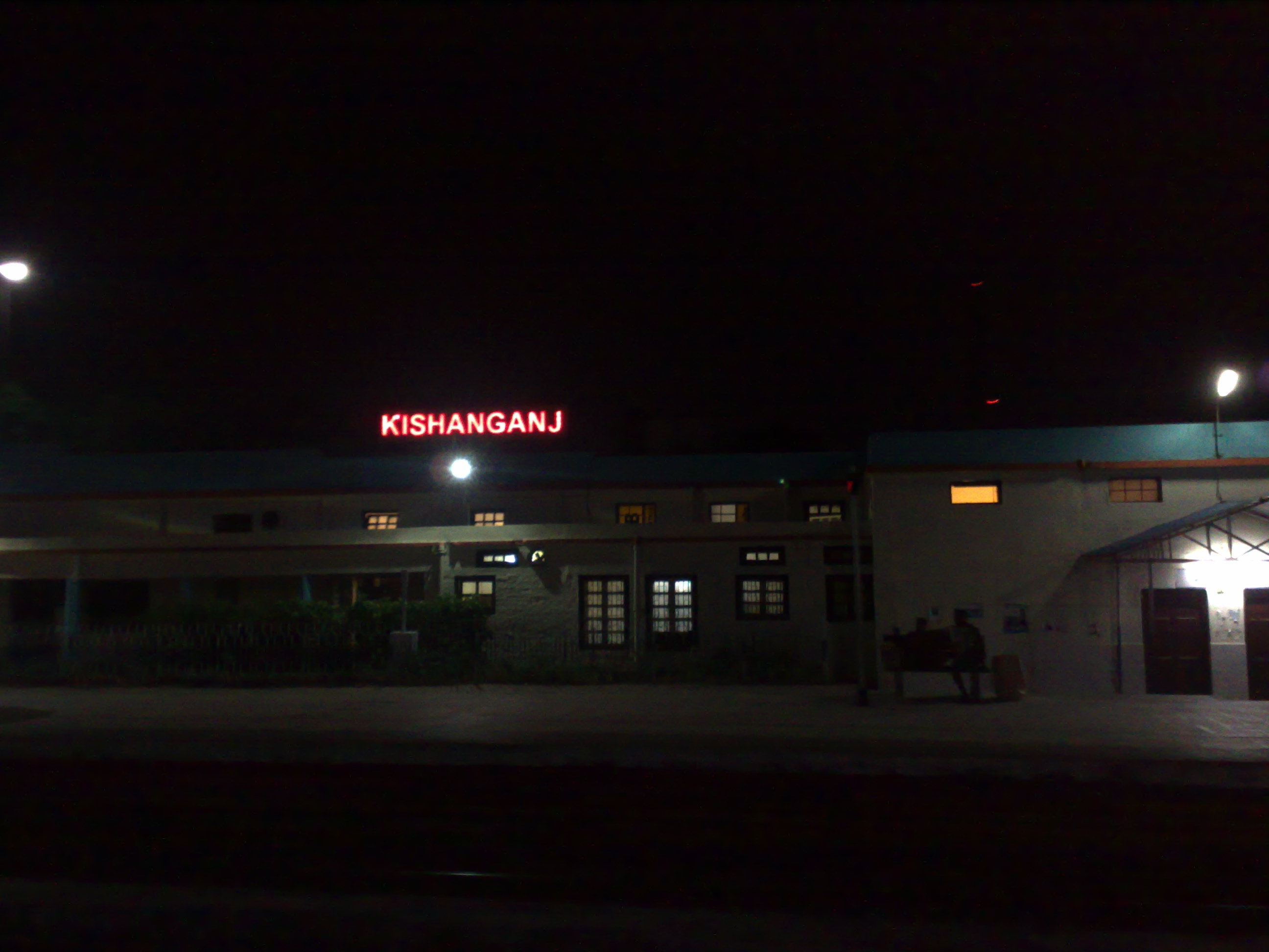 Kishanganj at night